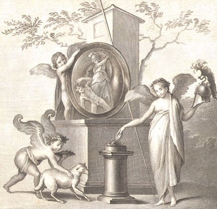 Vittoria che sacrifica ad Atena raffigurata nello scudo mentre abbatte un nemico. Attorno, amorini from Le Antichità di Ercolano v2 p233